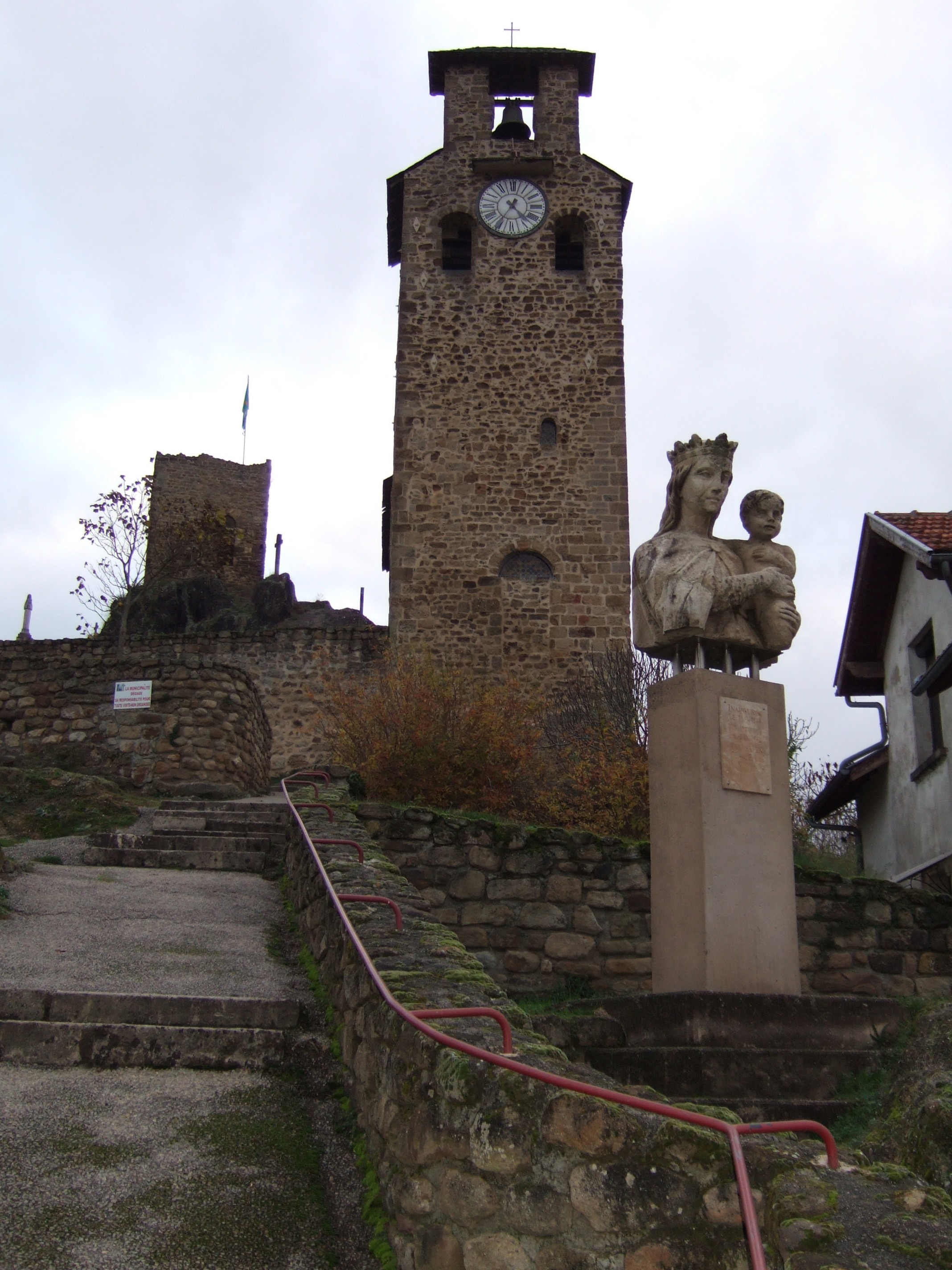 Aubin Fort site